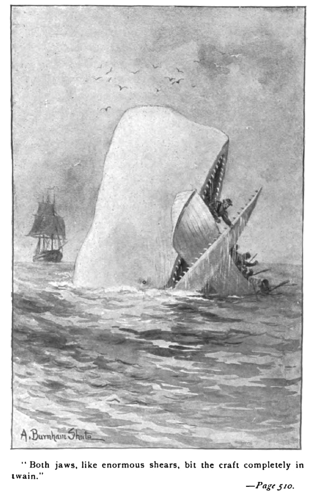 Illustration from an early edition of Moby-Dick